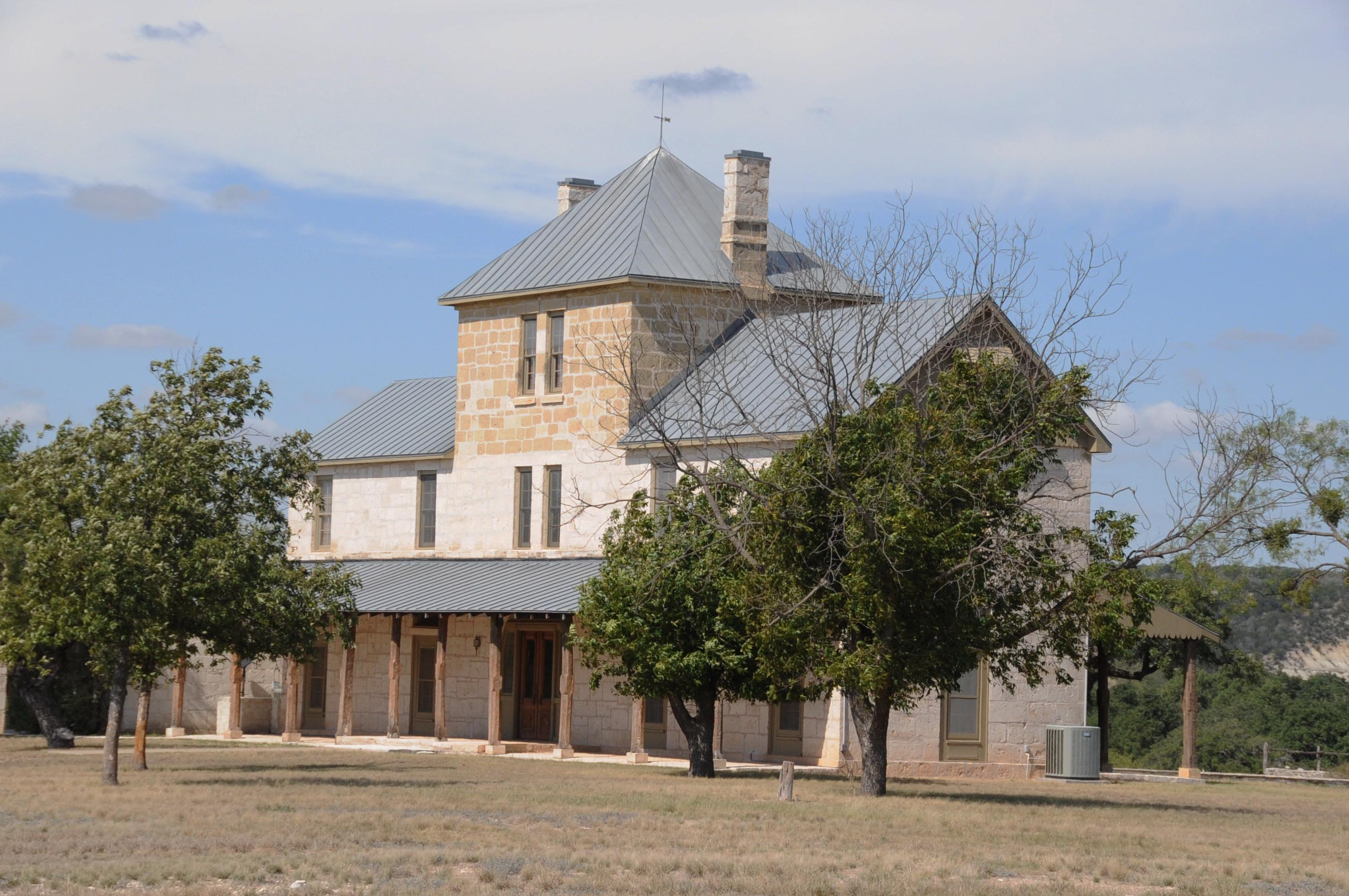 BUILT BETWEEN 1895-1900 BY WILLIAM HALL, AN ENGLISH IMMIGRANT; RARE EXA MPLE OF LATE 19TH CENTURY ENGLISH VERNACULAR ARCHITECTURE IN TEXAS HILL COUNTRY